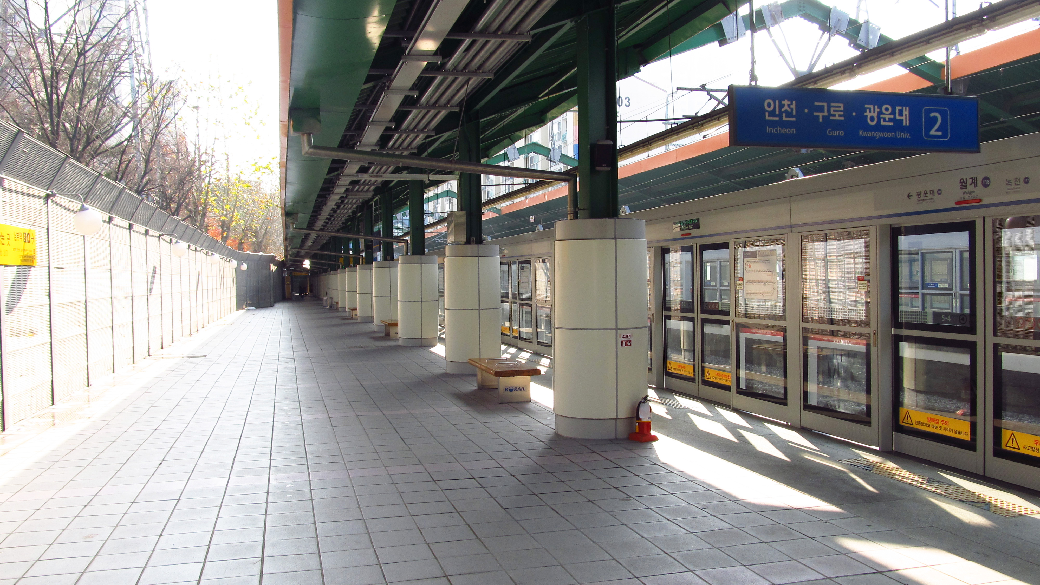 The platform at Wolgye Station on Seoul Subway Line 1 in Nowon-gu, Seoul, Republic of Korea(South Korea)